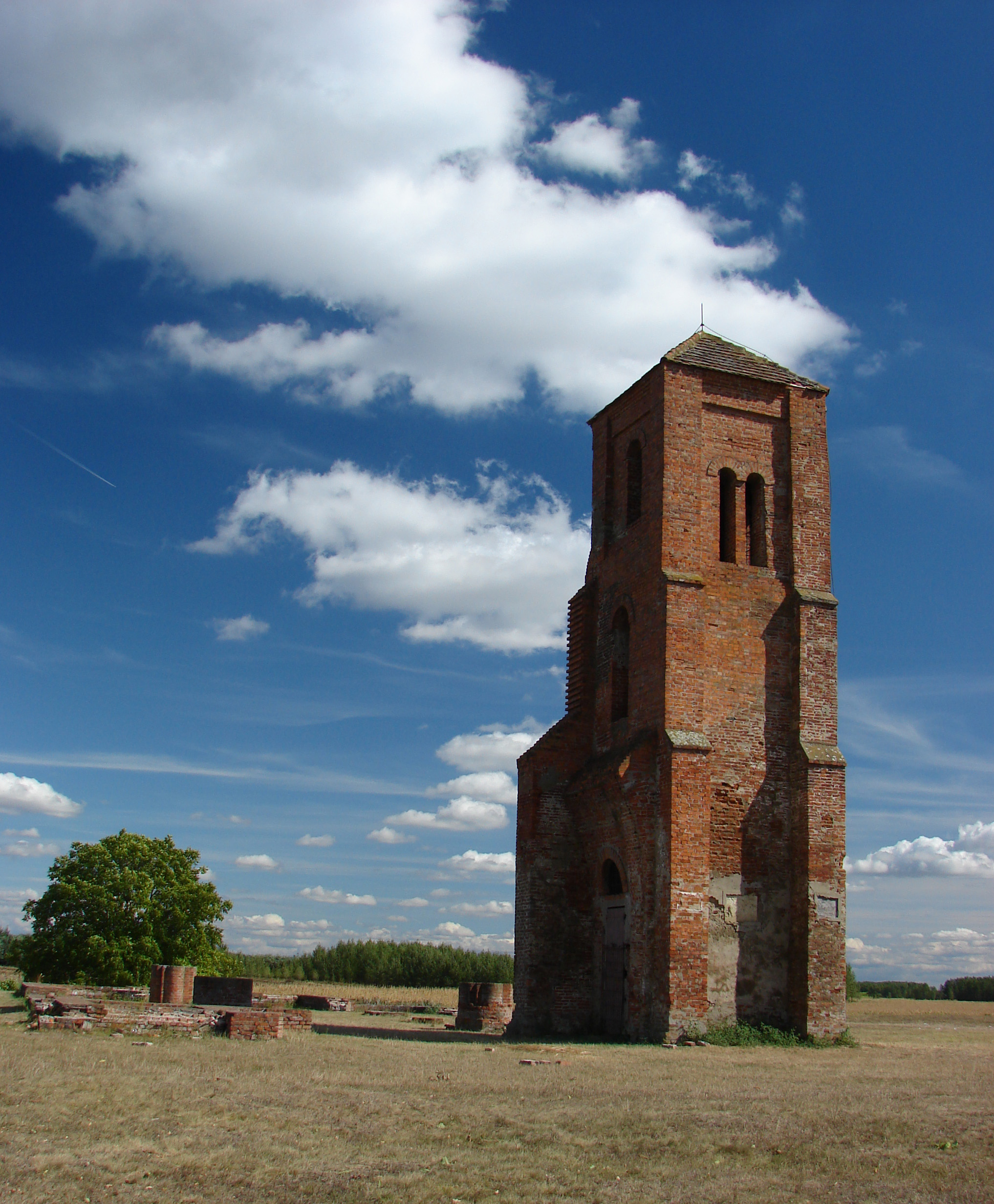 Herpály church ruin, Berettyóújfalu, Hungary